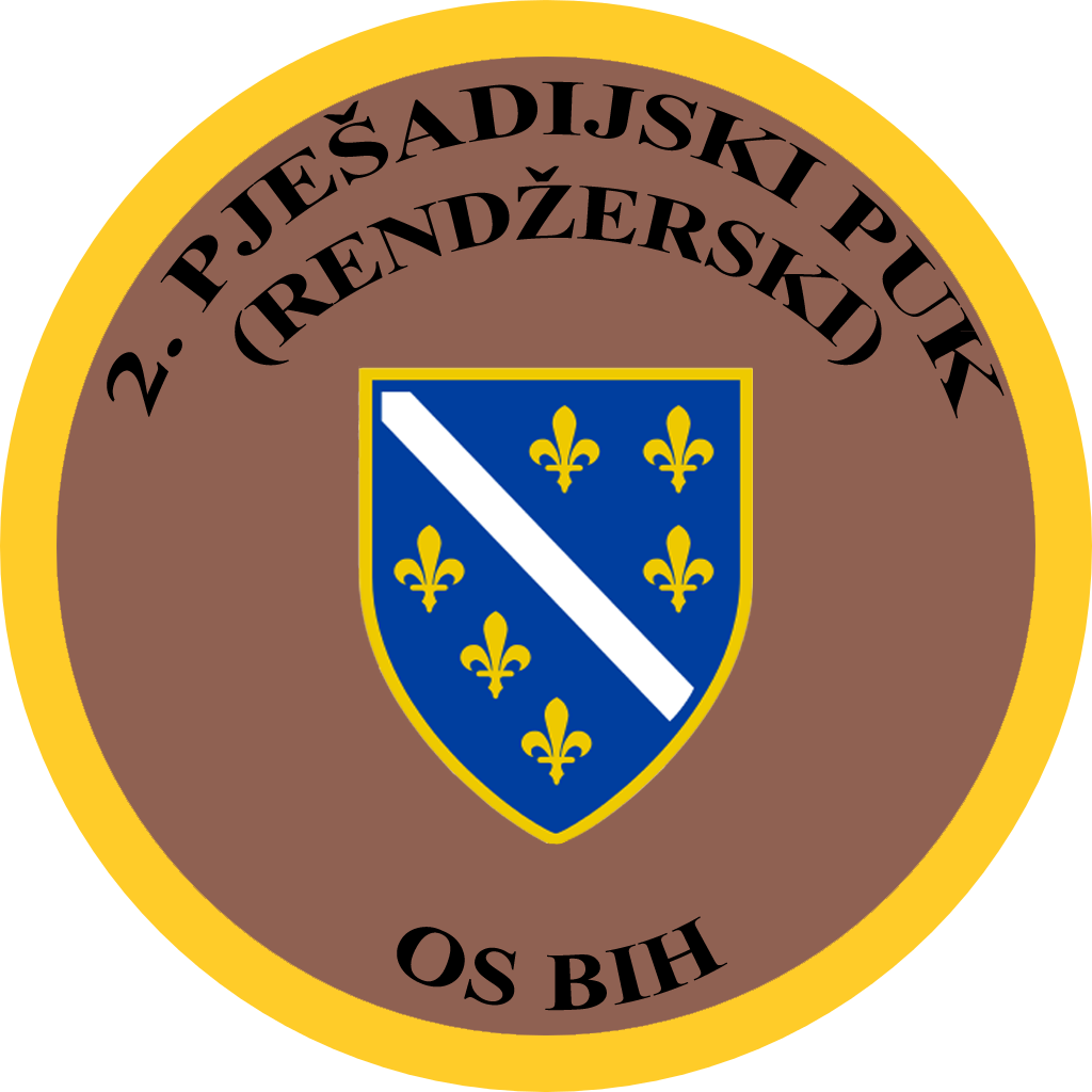 The emblem of the 2nd Infantry Regiment (Bosniak) of the Armed Forces of Bosnia and Herzegovina.